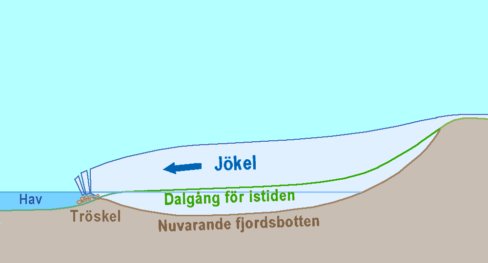 Geological genesis of a fjord